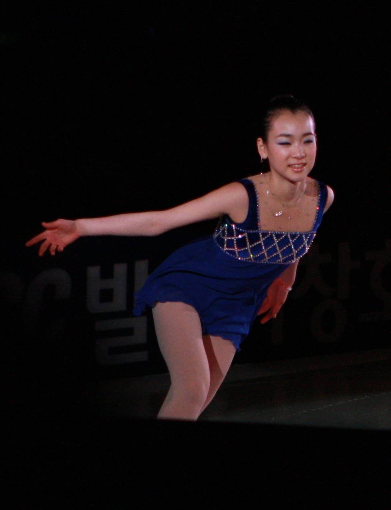 Yun Yea-Ji at the 2009 Festa On Ice.